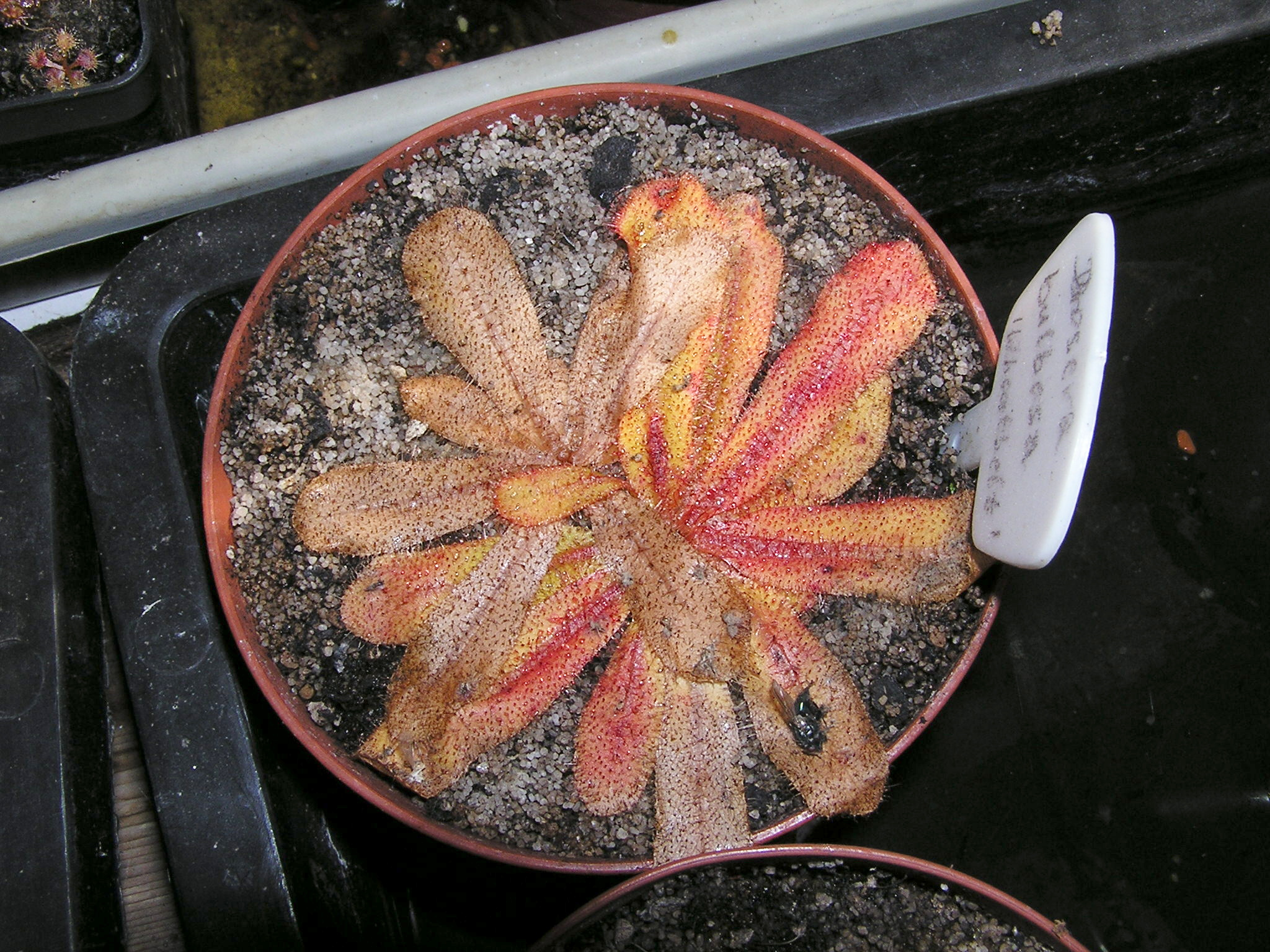 Drosera bulbosa